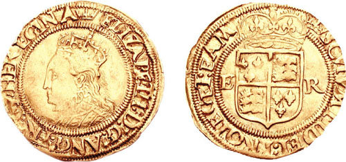 England Elizabeth I of England. 1558-1603. AV Crown (2.76 g, 10h). First issue. London mint; mm: coronet, 1567-1570. ELIZABETH : D' . G' . ANG' . FR' . ET : HI' . REGINA, crowned bust (4C) left, ear visible SCVTVM FIDEI : PROTEGET : EAM, crowned coat-of-arms; E R flanking. Brown & Comber H11; Schneider 751; North 1995; SCBC 2522. VF. Rare.